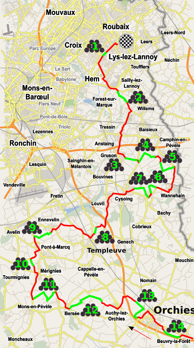 Map of Paris-Roubaix 2017: part 4